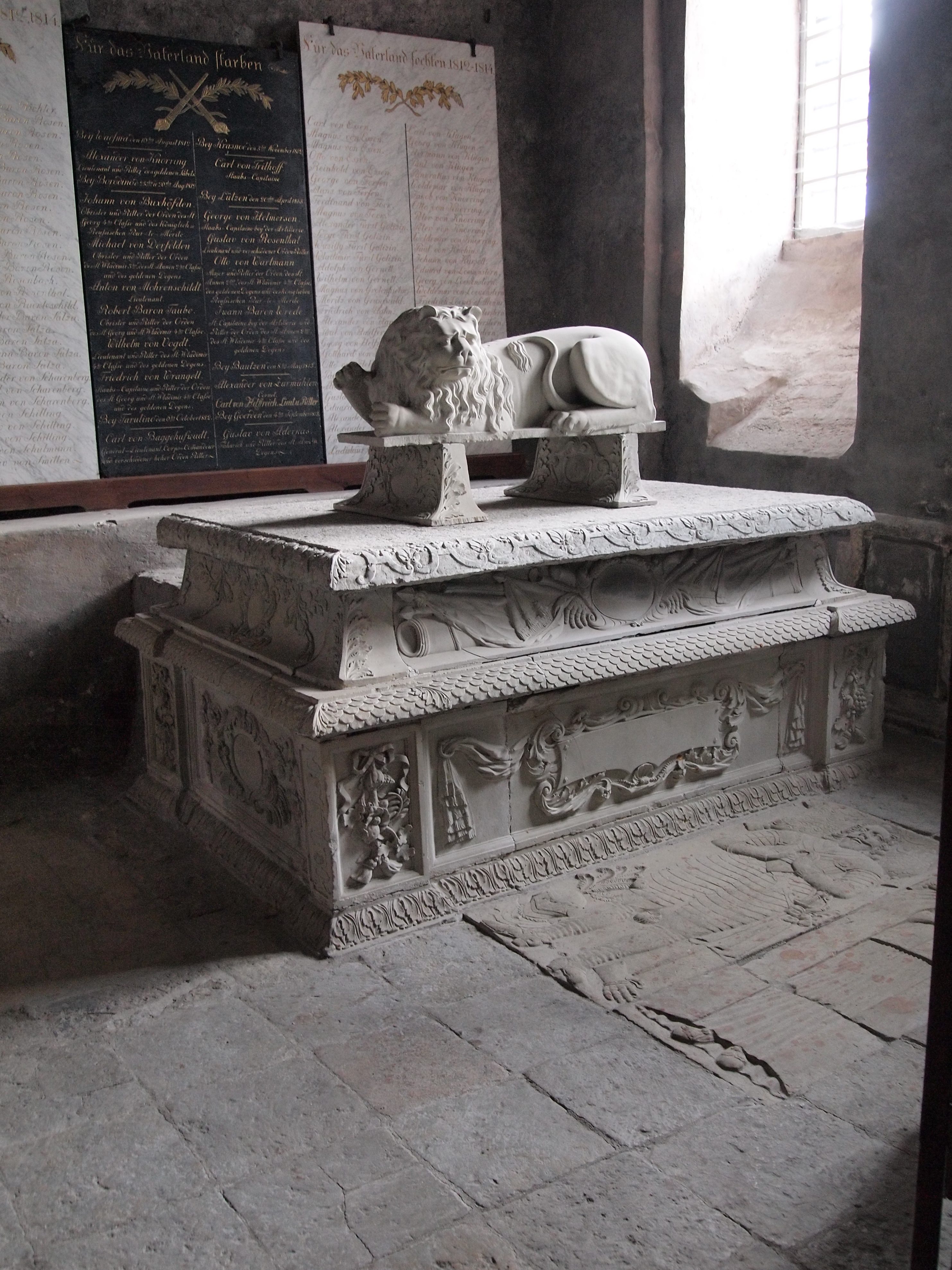 Grave monument of Otto Wilhelm von Fersen in Tallinn Cathedral